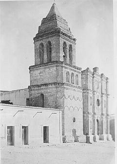 Nuestra Señora de la Asunción de Arizpe, Sonora, built circa 1756